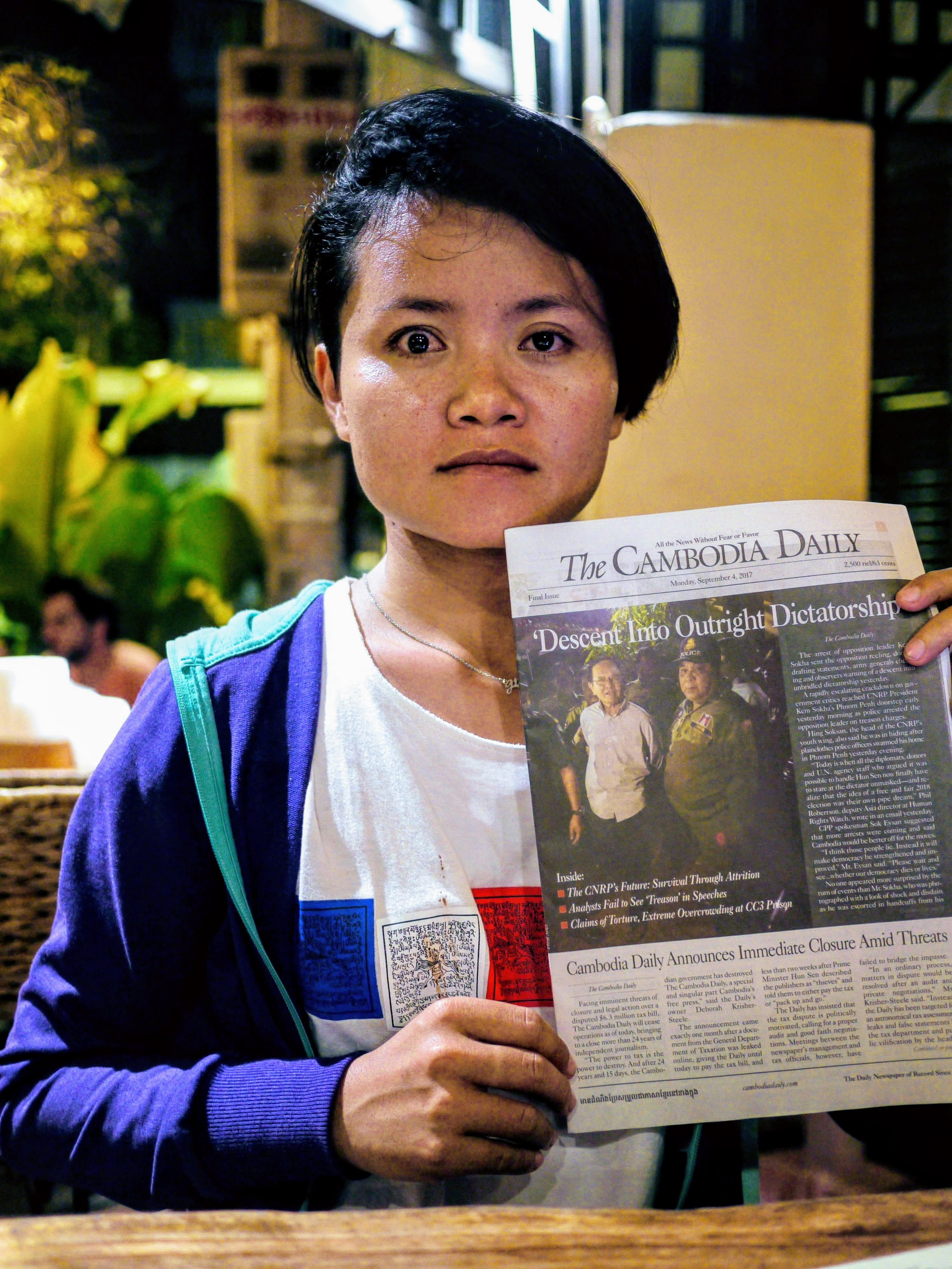 Len Leng, a former journalist with the Cambodia Daily holds up a copy of the last and final issue of the newspaper on 4 September 2017.